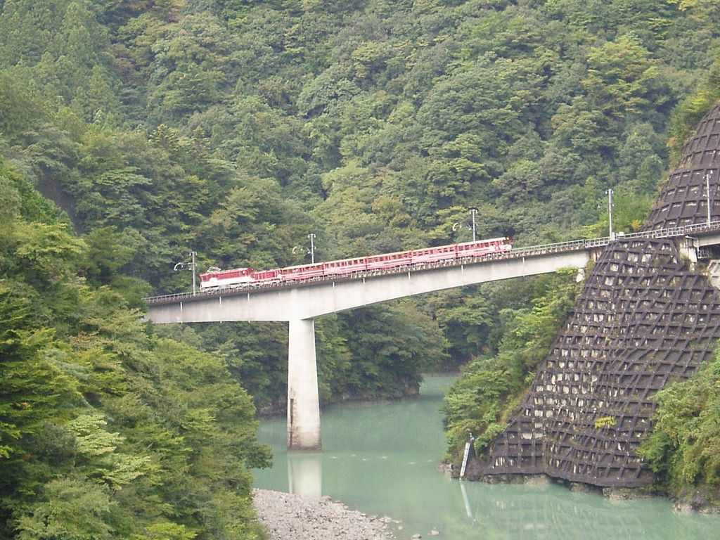 Oigawa Railway Passenger Train by System ABT. Between ABT-Ichishiro Sta. and Nagashima-Dam Sta. 2007.10.09 Photo by Cassiopeia_sweet.